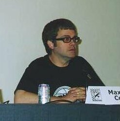 Author Max Allan Collins at Comic-Con International in 2002